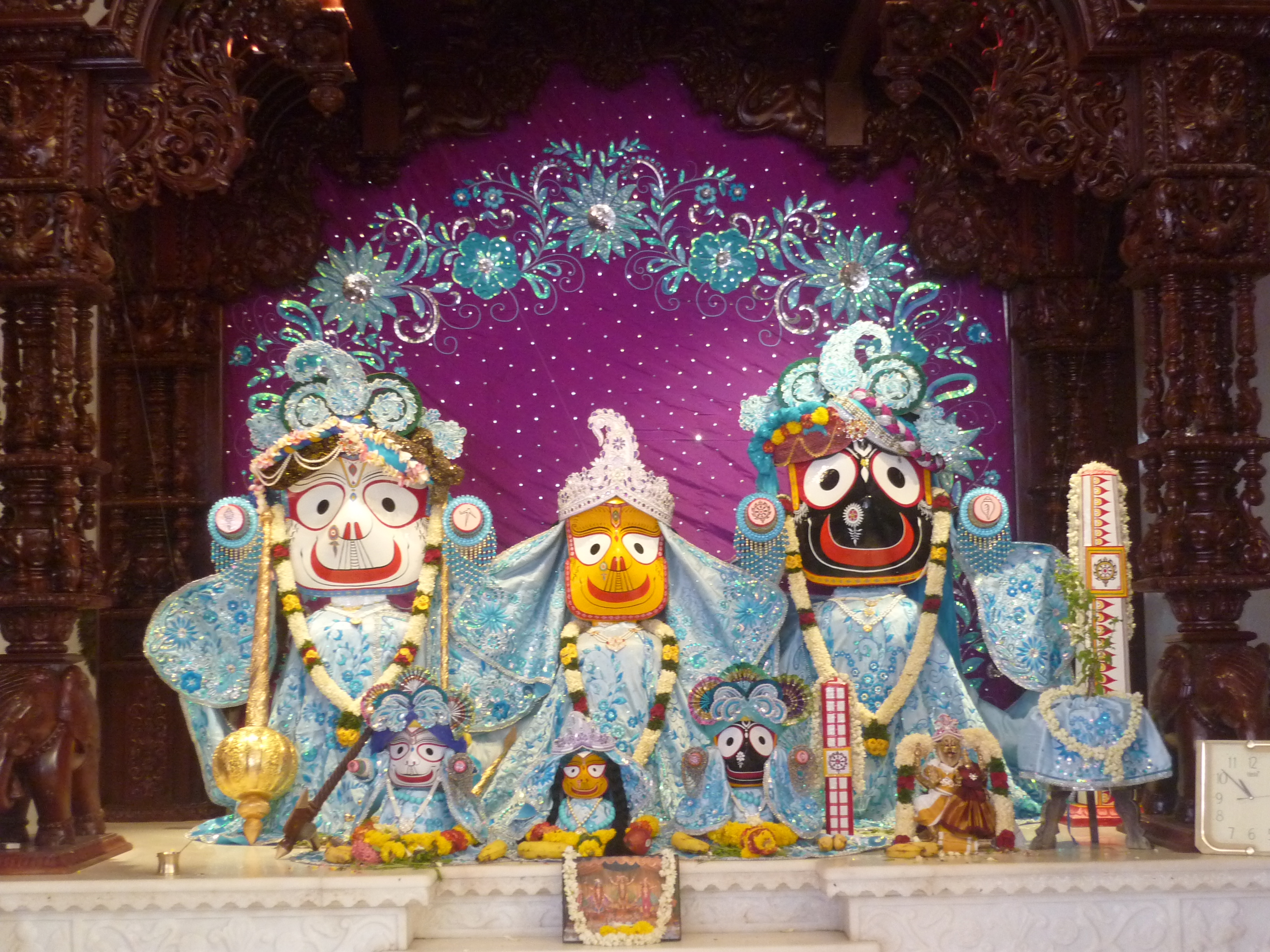 ISKCON Temple Chennai, Statues of Lord Jagannath and Baladeva and Subhadra, taken on 1-May-2012